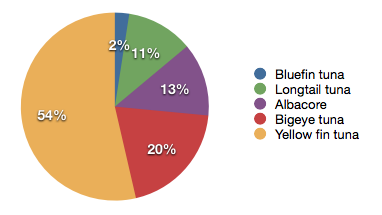 Global fisheries recorded capture of Thunnus species in 2009. Data sourced for each species from the FAO fisheries Species Fact Sheets